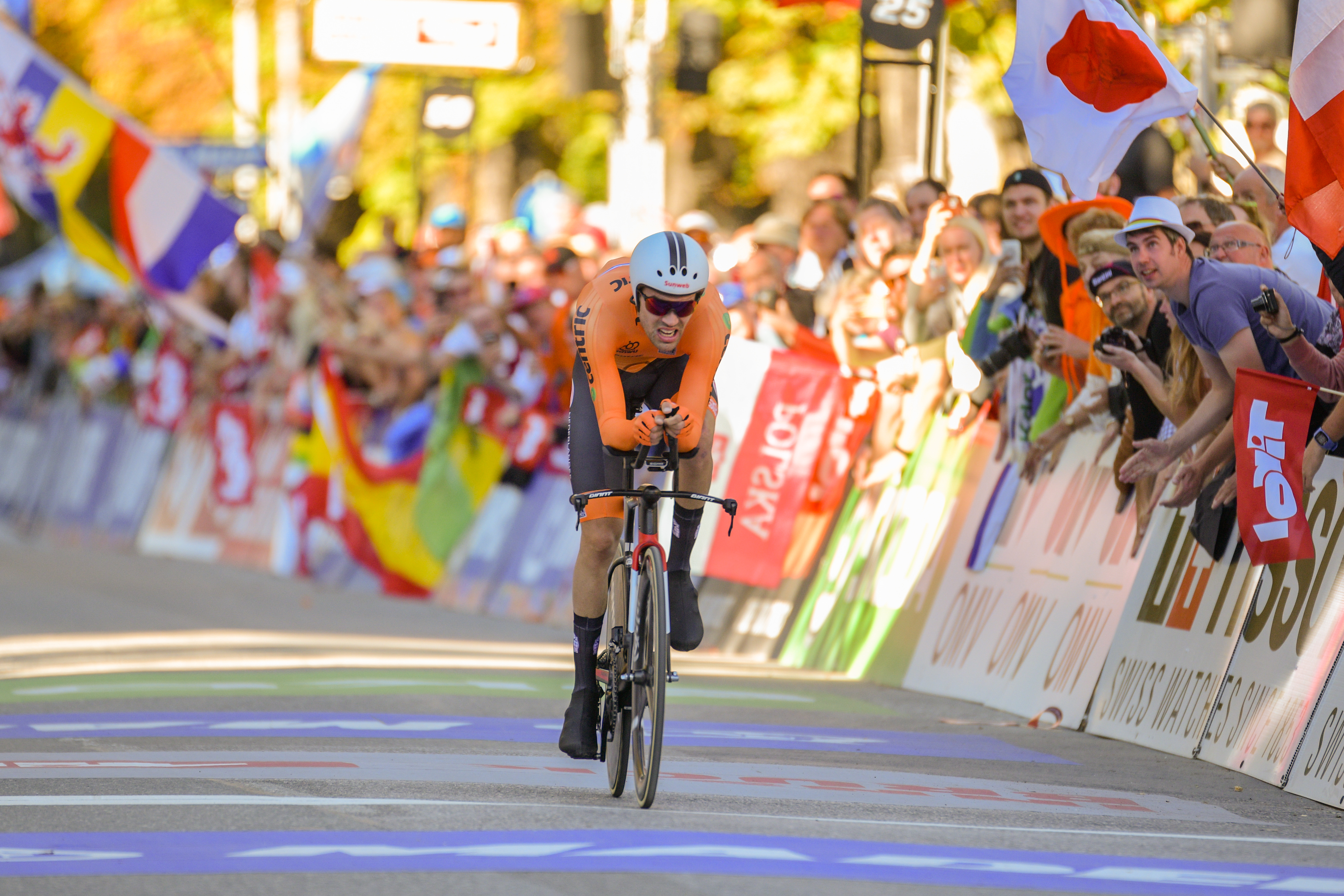 2018 UCI Road World Championships Innsbruck/Tirol Men's Individual Time Trial. Picture shows: Tom Dumoulin of the Netherlands